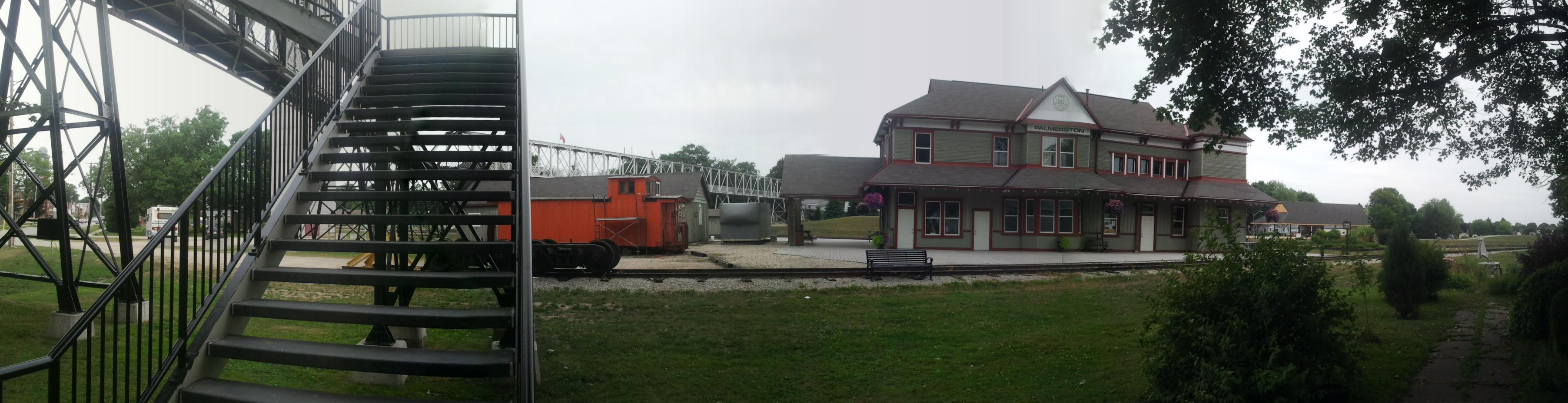 Panoramic view of Palmerston Railway Heritage Museum. The Rail Walk (a scaled down version of a Iron Railway Bridge) is visible on the left.